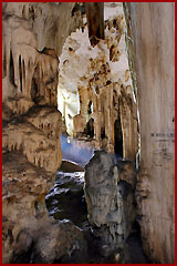 Martin's Cave is a show cave - Martin's Cave is a large cave in Gibraltar. It opens on the eastern cliffs of the Rock of Gibraltar